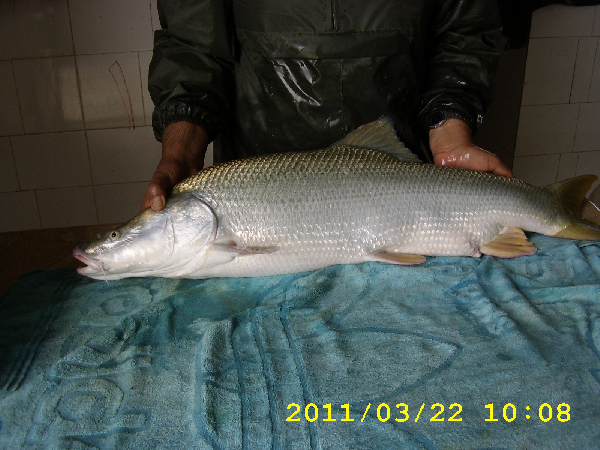 Collected in Iran